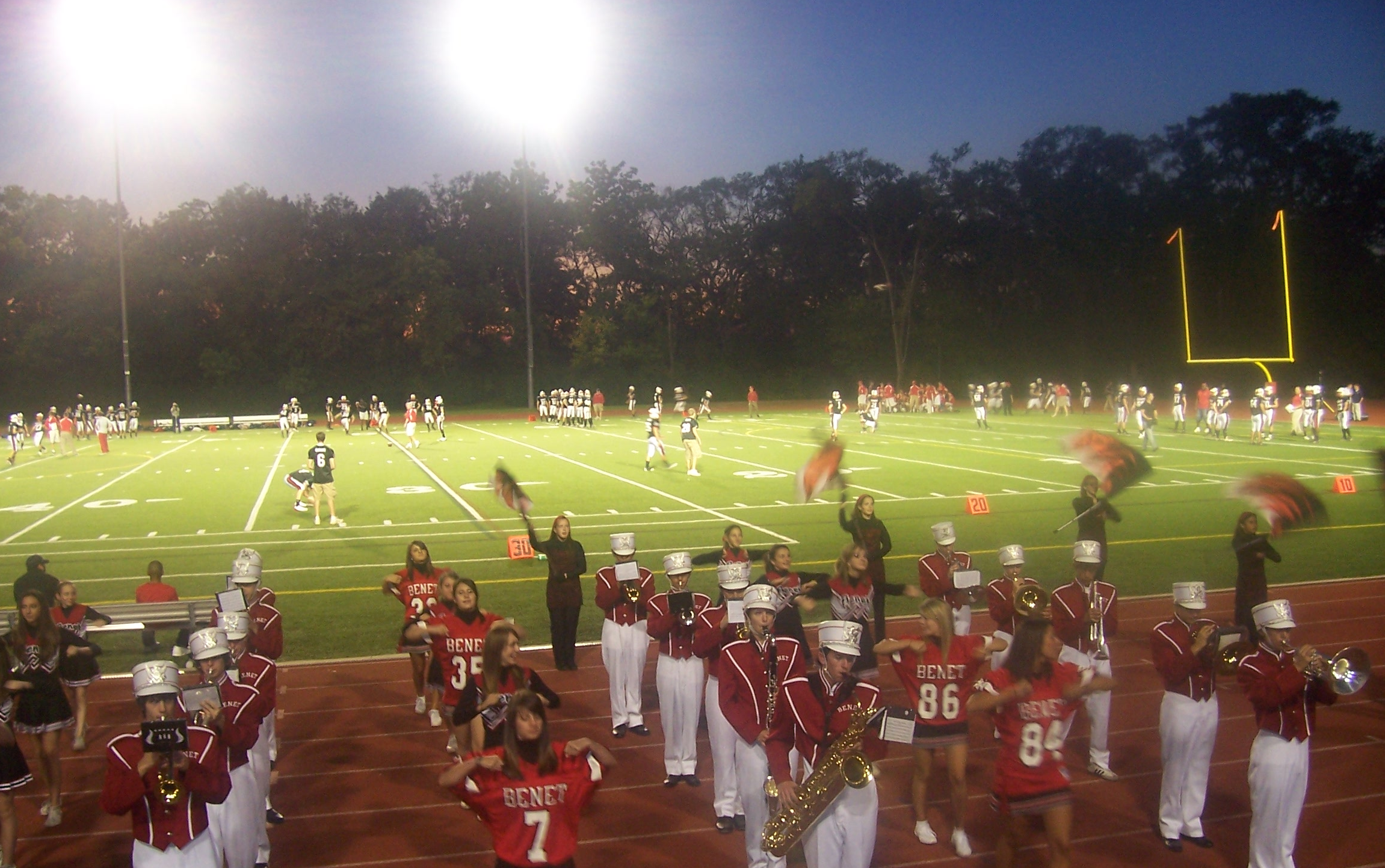 The Benet Academy Marching Band, Color Guard, and Avions perform before a varsity football game at Benedictine University. Cropped version of original photo.